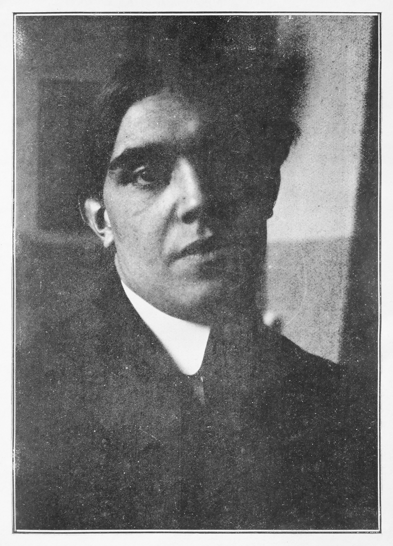 Juan Gris, portrait photograph, published in Les Peintres Cubistes, 1913